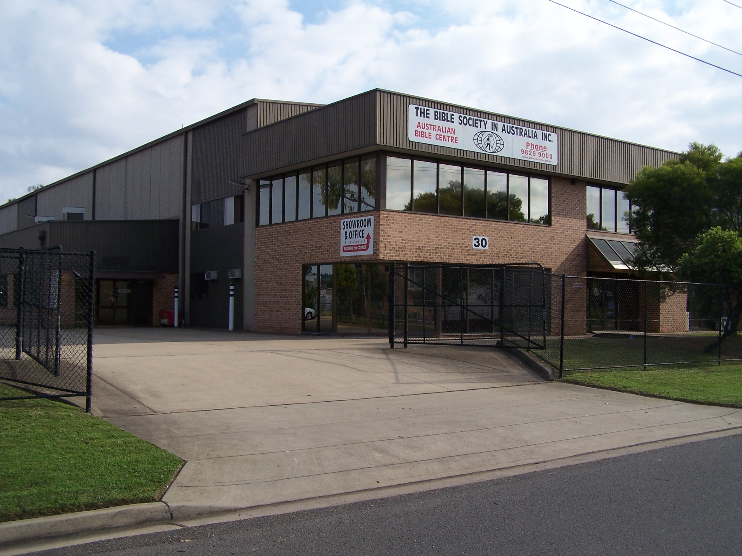 Exterior photograph of the Bible Society in Australia in Ingleburn, NSW